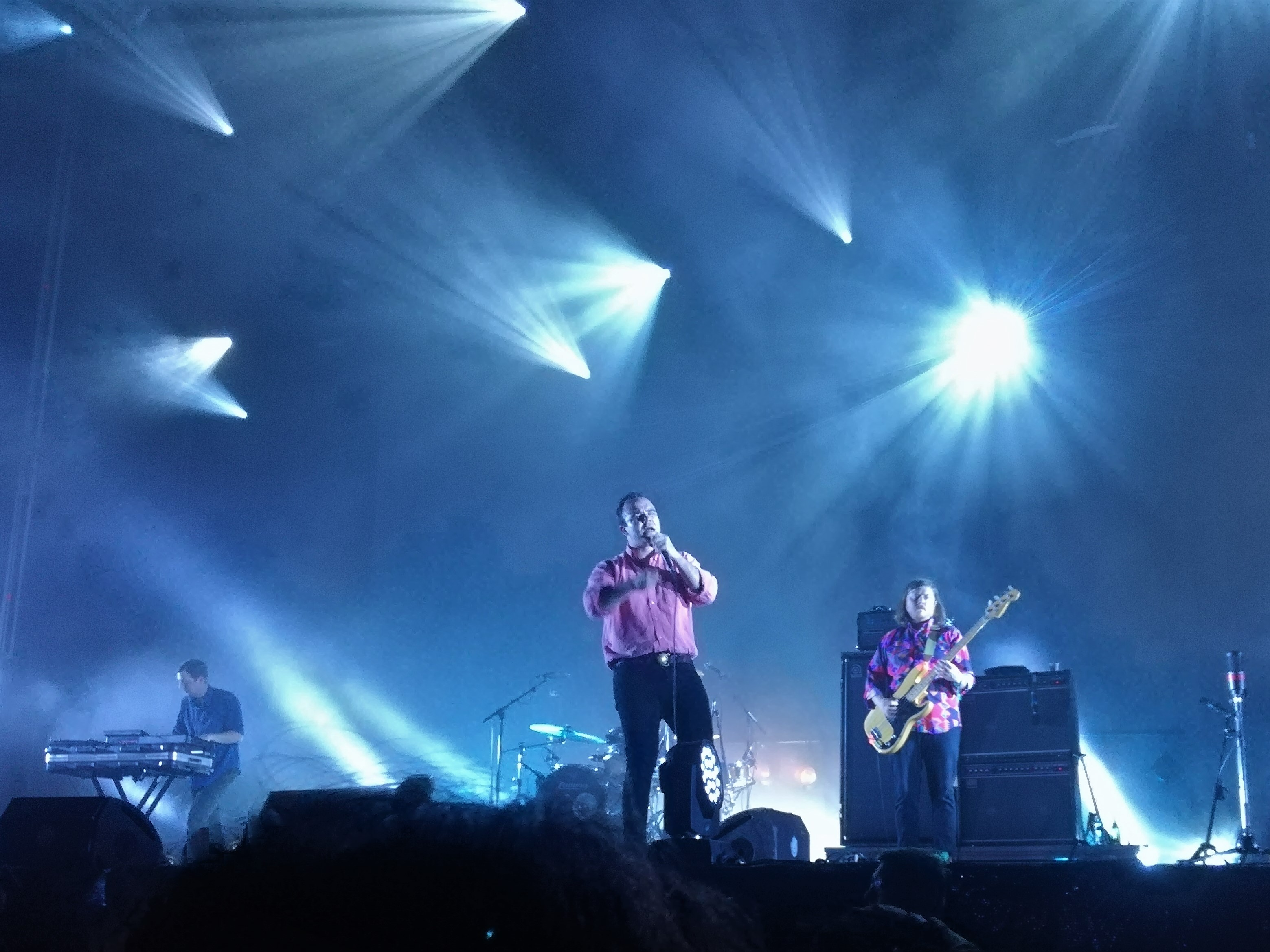 Future Islands performing in the spanish festival WAM